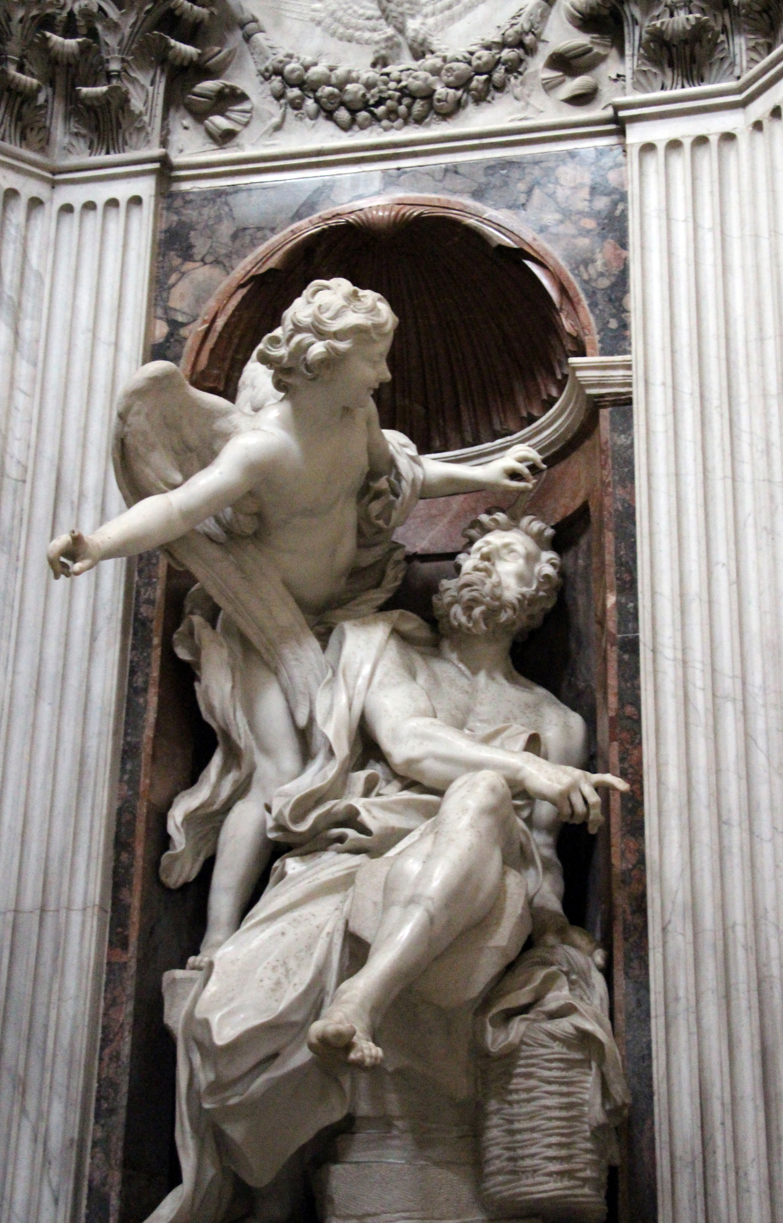 Habakkuk and the Angel by Gian Lorenzo Bernini